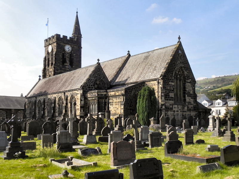 Mytholmroyd, St Michael's Church, near to Mytholmroyd, Calderdale, Great Britain.